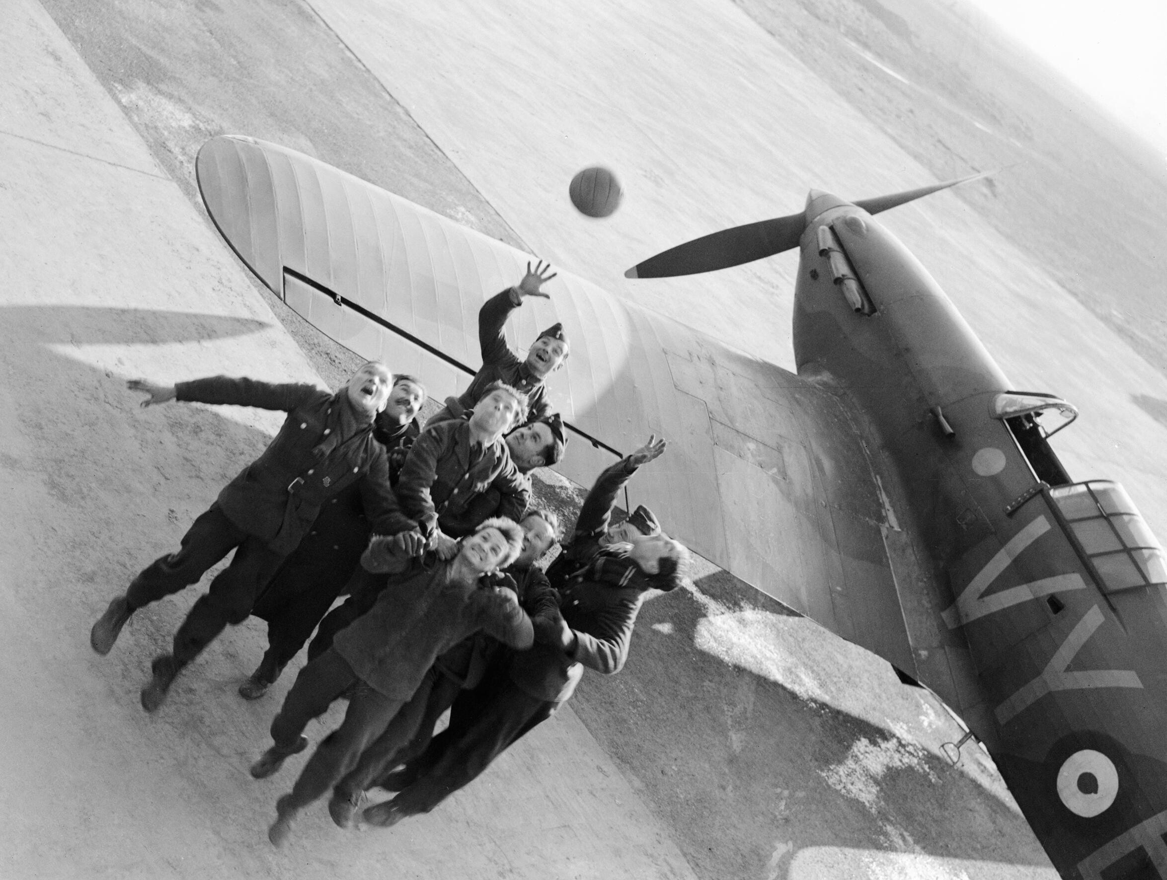 Royal Air Force 1939-1945- Fighter Command Ground staff play with a ball next to a No 85 Squadron Hurricane at Lille-Seclin, November 1939. Note the fabric-covered outer wings characteristic of early-production aircraft. These were initially chosen to ensure a faster rate of production, but were soon substituted for stressed-skin metal wings. Visible also is the Watts fixed-pitch wooden propeller and the gas detection patch painted below the cockpit.